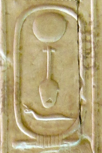 Cartouche 29, Abydos King List. Temple of Seti I, Abydos, Egypt